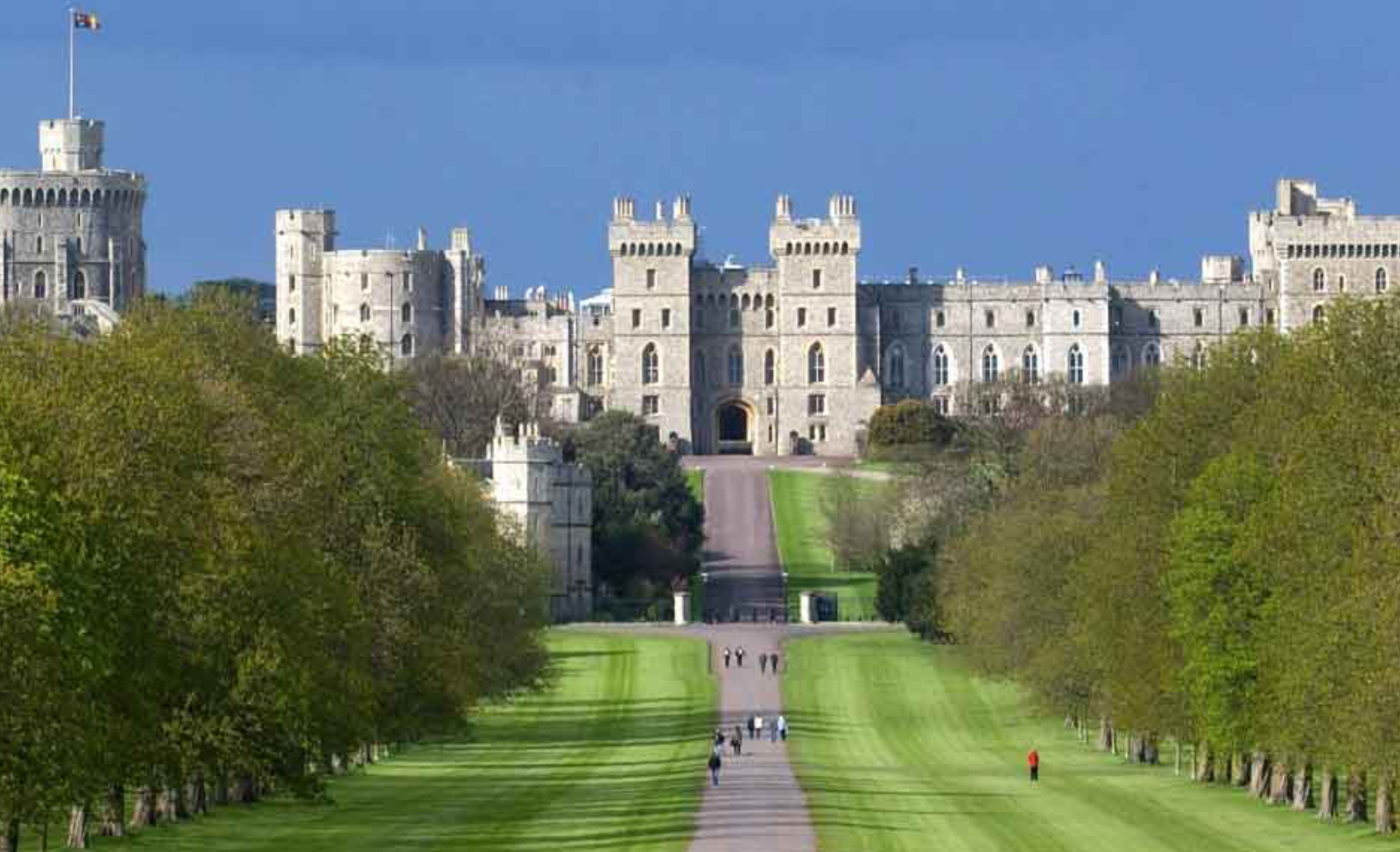 Windsor Castle Wikidata has entry Q42646 with data related to this item.